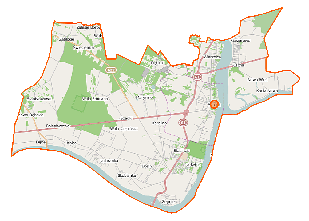 Map of Gmina Serock, Poland This map of Serock (gmina) was created from OpenStreetMap project data, collected by the community. This map may be incomplete, and may contain errors. Don't rely solely on it for navigation. Border coordinates52.570120.8816←↕→21.157652.4502